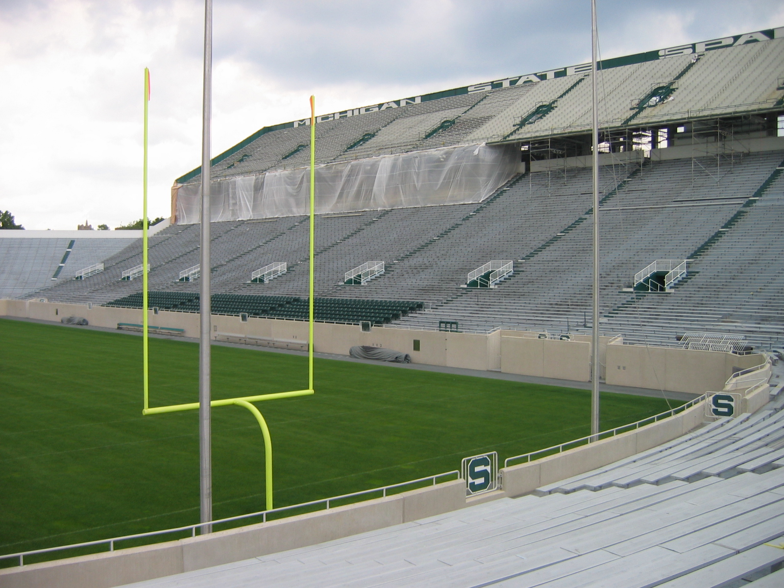 Spartan Stadium (East Lansing)